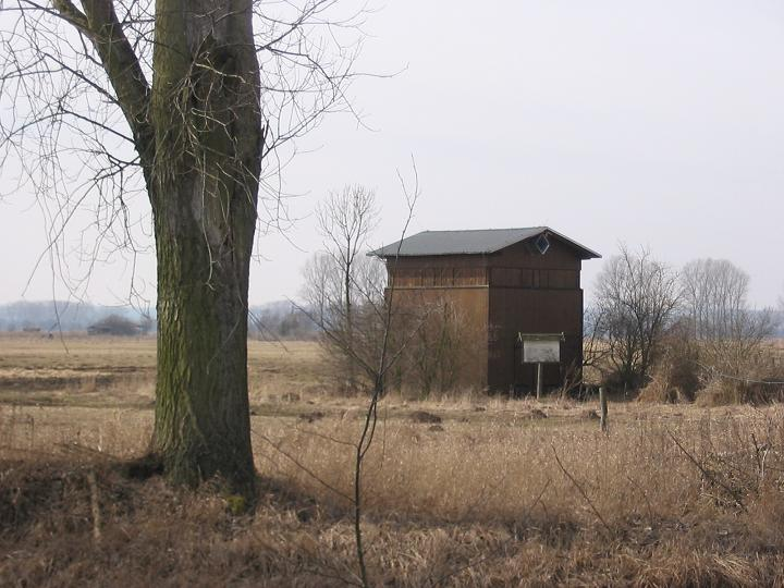 "Belziger Landschaftswiesen" („territory grassland near the town Belzig“) in Brandenburg, bird observation station Freienthal